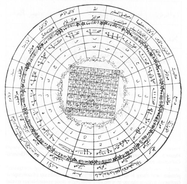 A Bábí da'ira, printed in gold and incorporating script in the Báb's own hand, given to E.G. Browne by Subh-i-Azal in 1896. Item B.6 in Folder 3 of Browne's Oriental Collection.